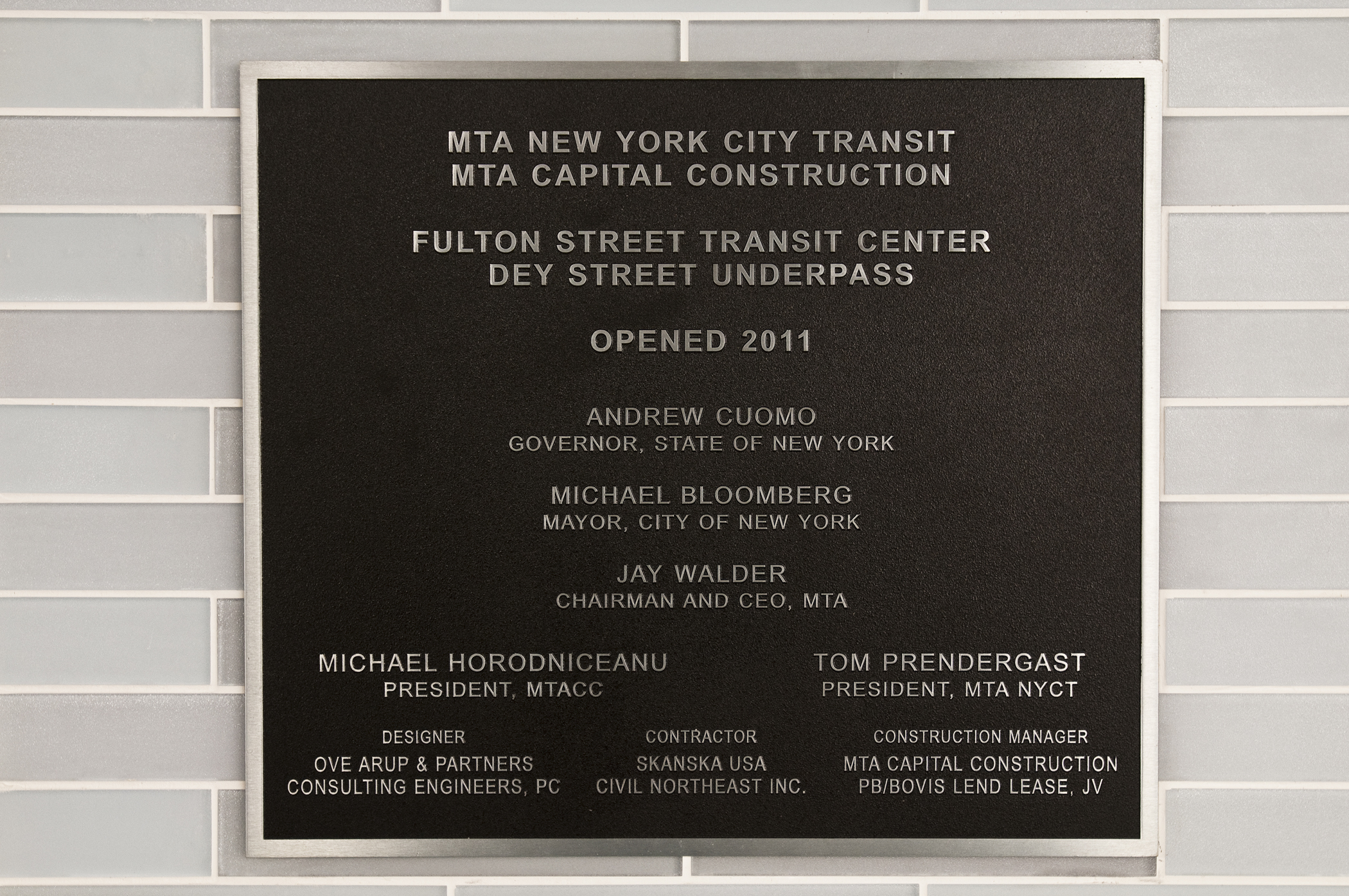 The plaque at the Cortlandt Street station's Dey Street Underpass, part of the Fulton Street Transit Center project. It is being used as an access path to the newly reopened southbound platform. Photo by Metropolitan Transportation Authority / Patrick Cashin.